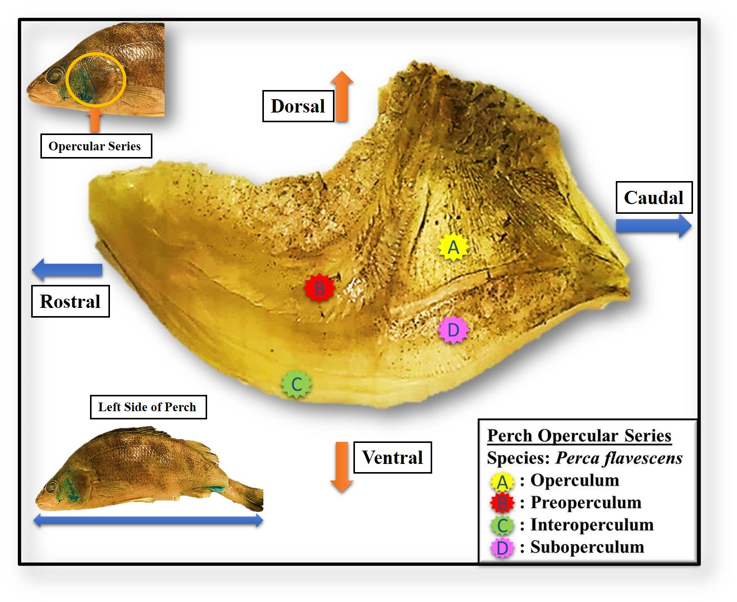 Perch Operculum Image